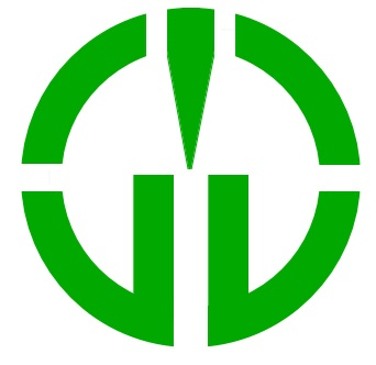 Tsuruta Aomori chapter